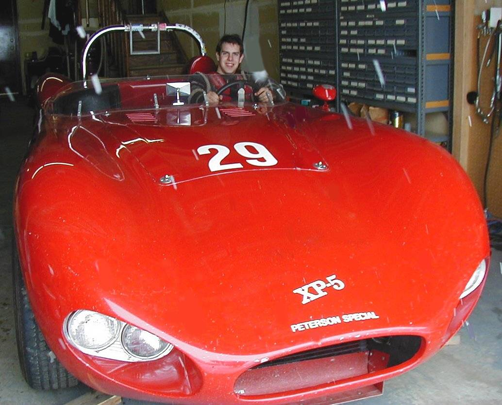 Bocar XP-5